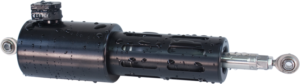 Example of a pressure-compensated, deep-sea, underwater linear actuator. Primarily designed for control surface actuation on underwater vehicles.